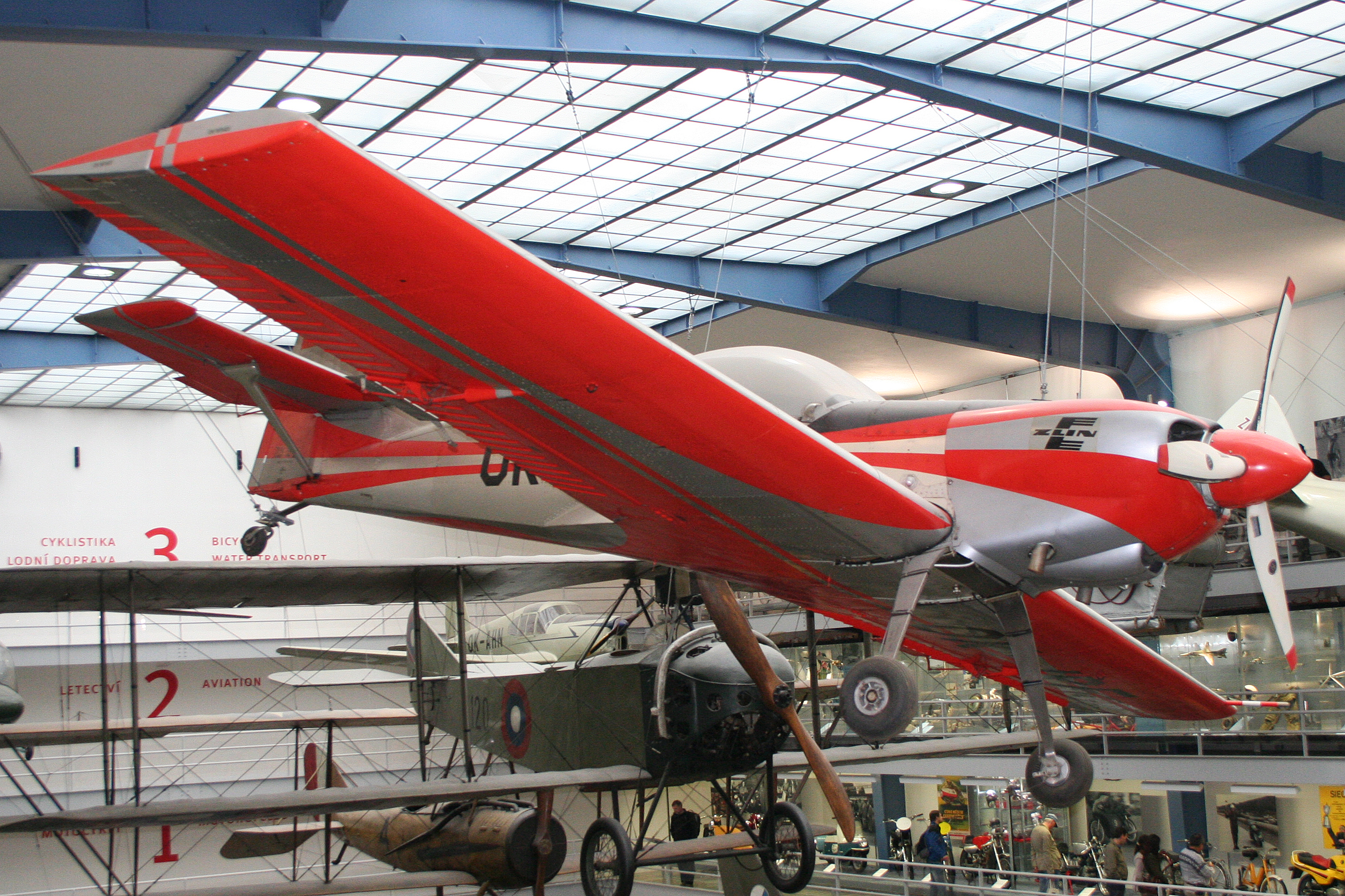 A significant aircraft, this Zlin-50 won the 1978 world aerobatic championships flown by Ivan Tucek. msn 0016. National Technical Museum, Prague. Czech Republic. 07-10-2012